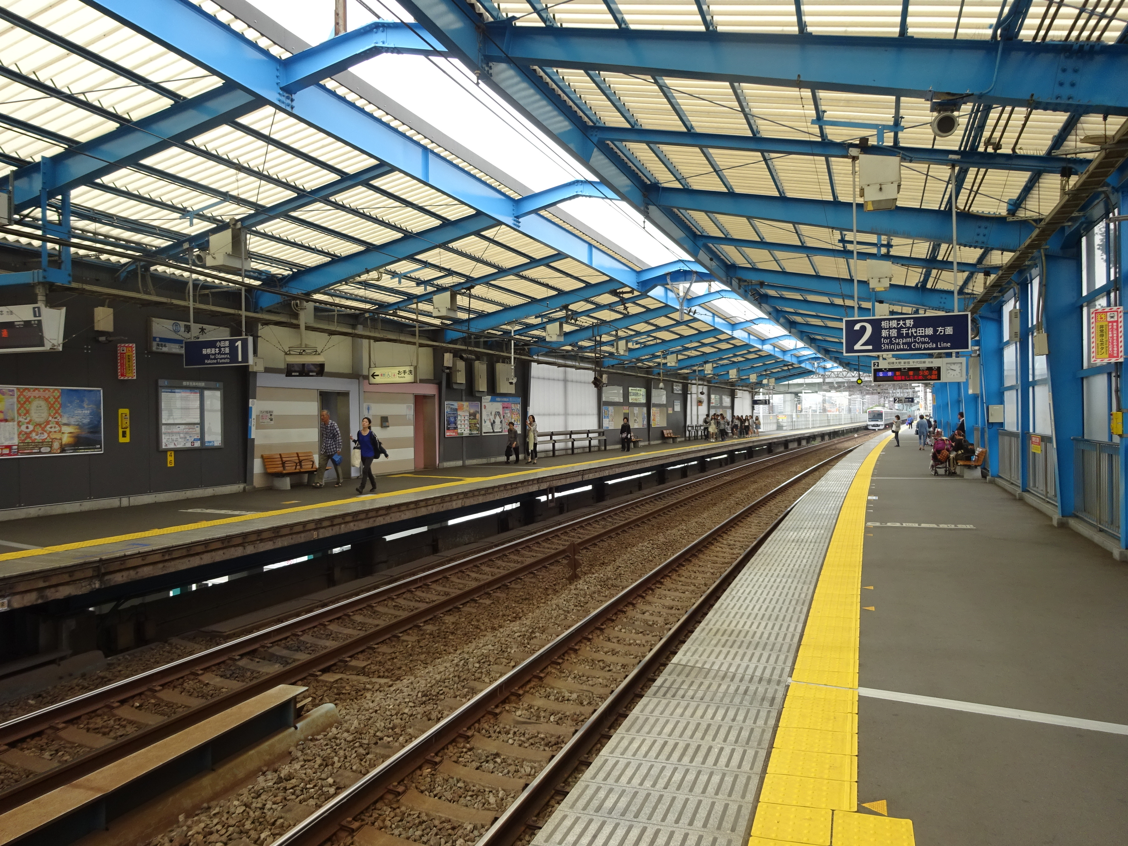 Odakyu Platforms of Atsugi Station